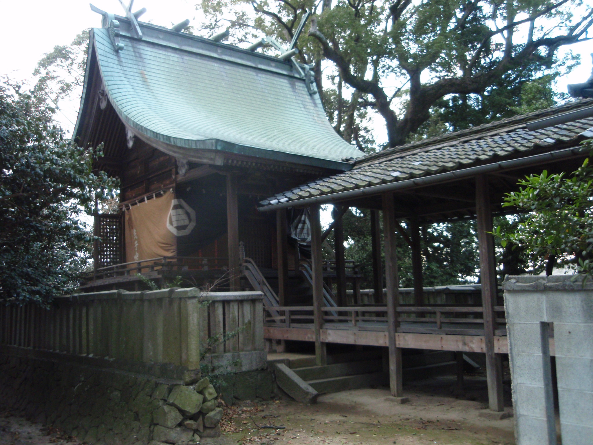 The honden (main building) of Iyo Shrine at Masaki town,Ehime prefecture